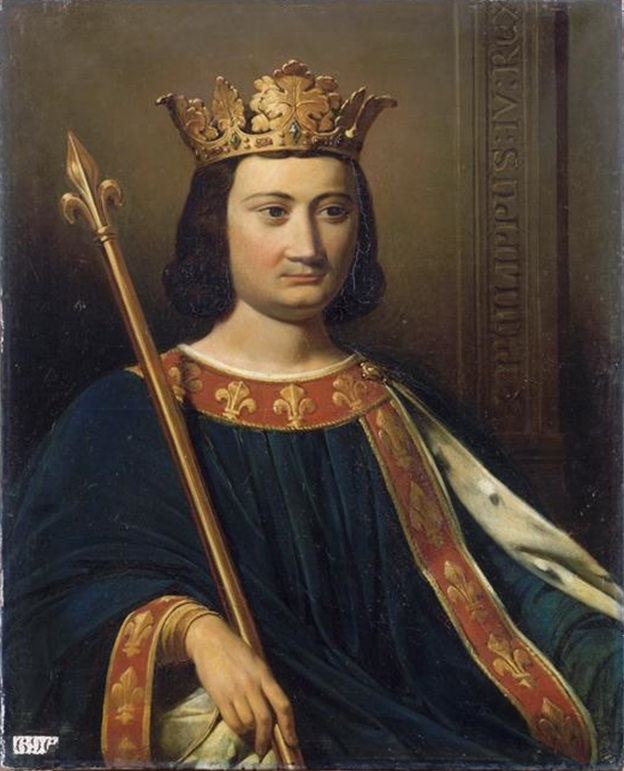 This painting belongs to the Portraits of Kings of France, a series of portraits commissioned between 1837 and 1838 by Louis Philippe I and painted by various artists for the Musée historique de Versailles.